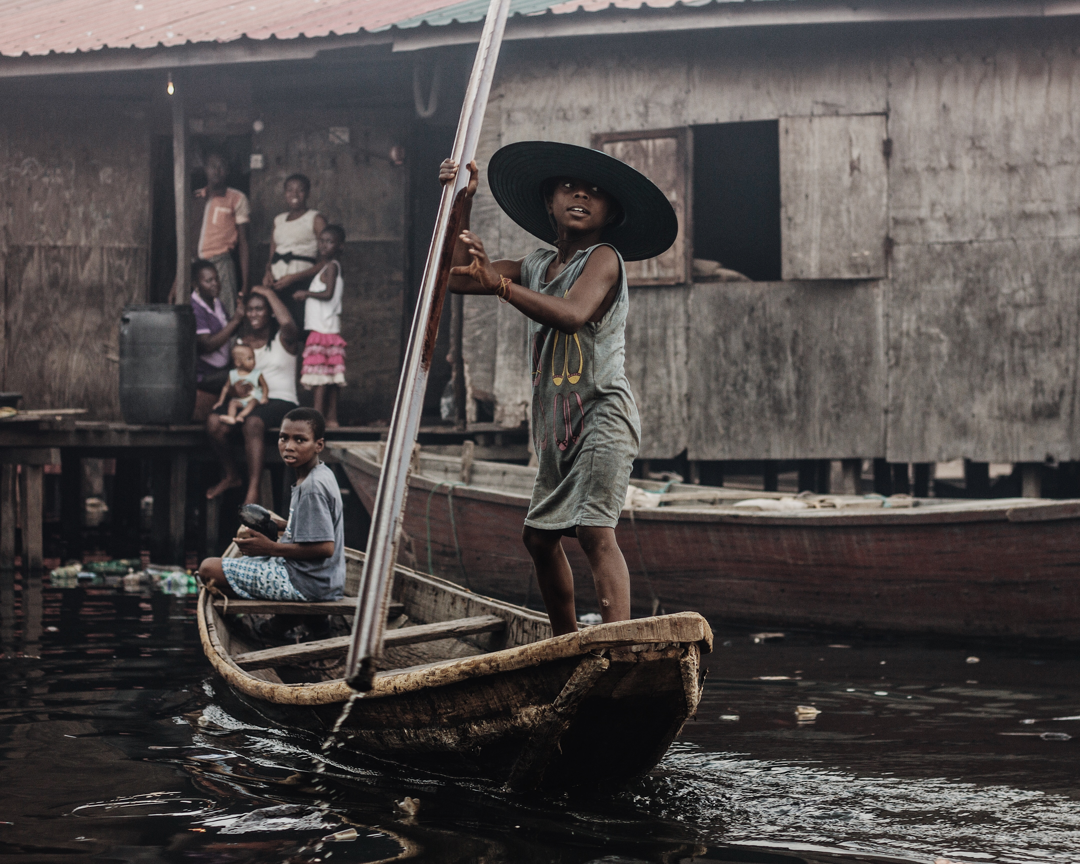 A young boy, paddling a boat to complete an errand. This is an image of "African people at work" from Nigeria